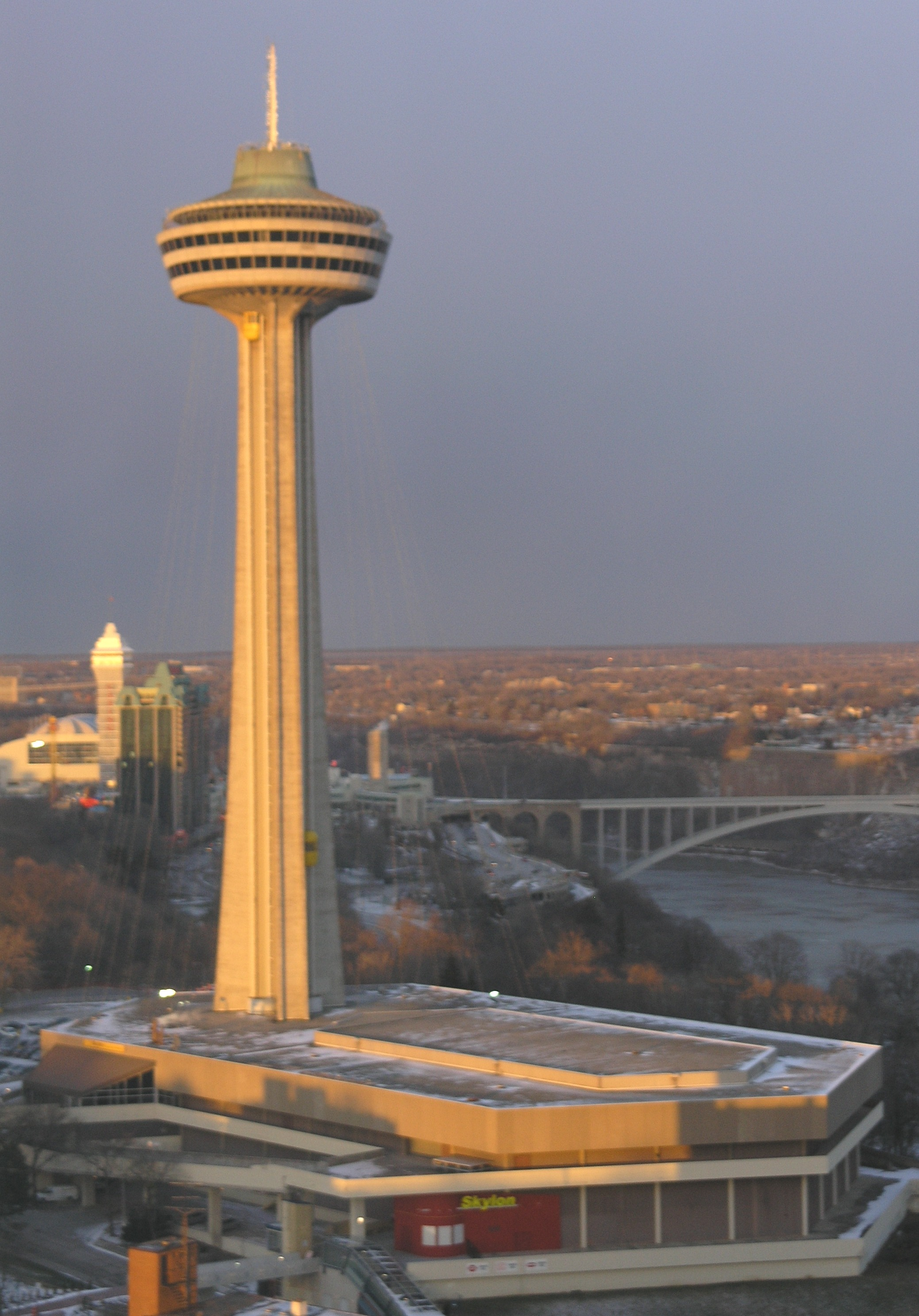 Taken by Daniel Mayer in late February 2006.